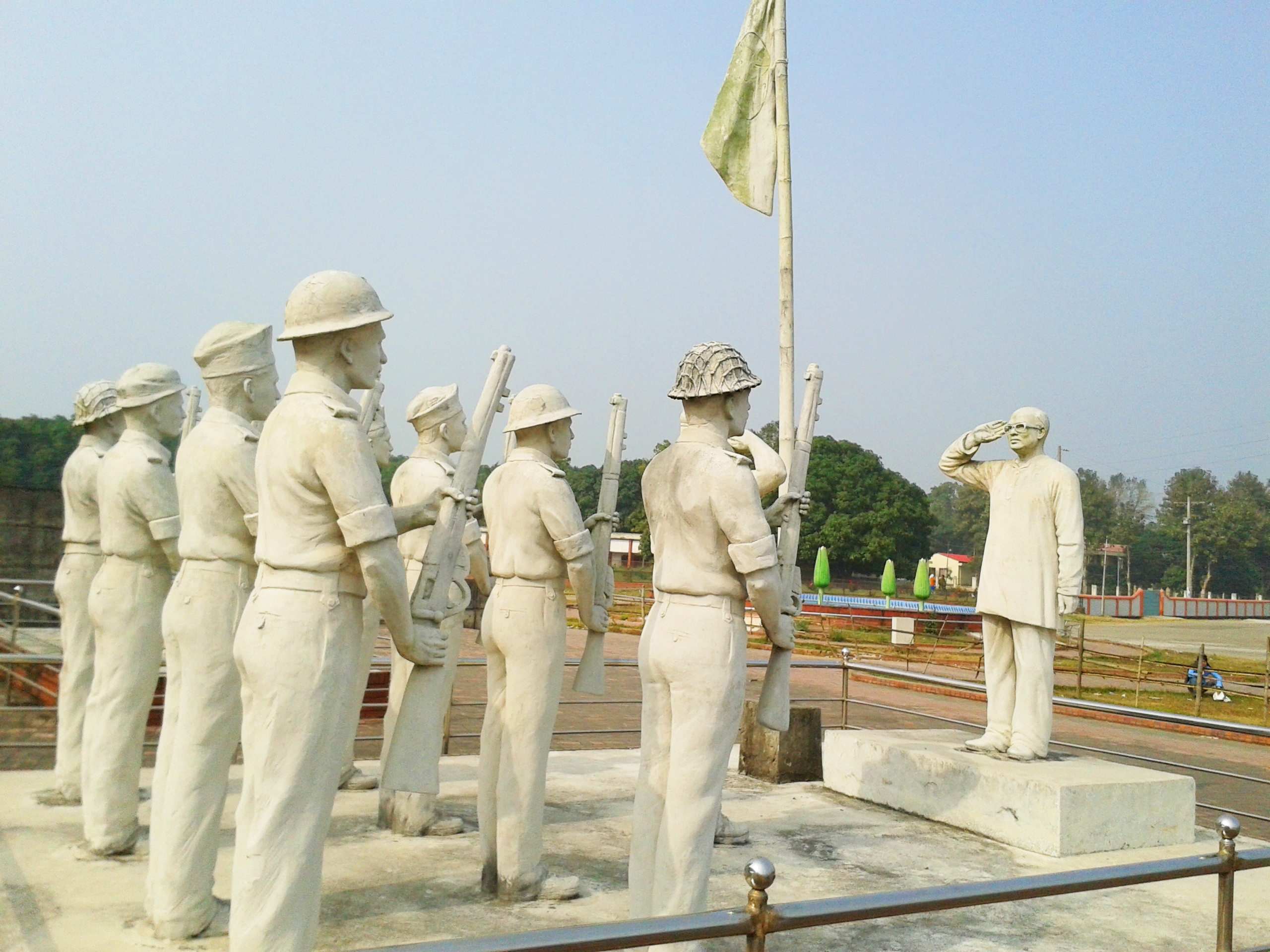 Prensenting of guard of honur to the acting President Sayed Nazrul Islam on 17 April, 1971